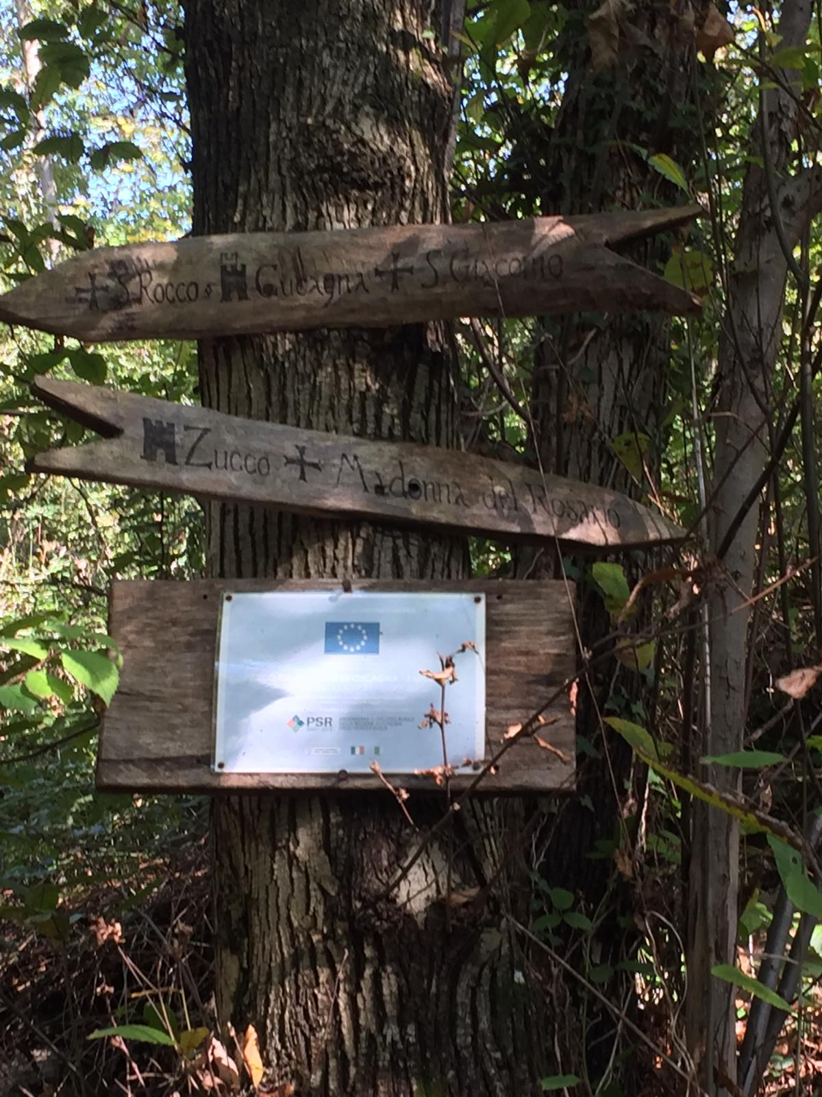 Cucagna